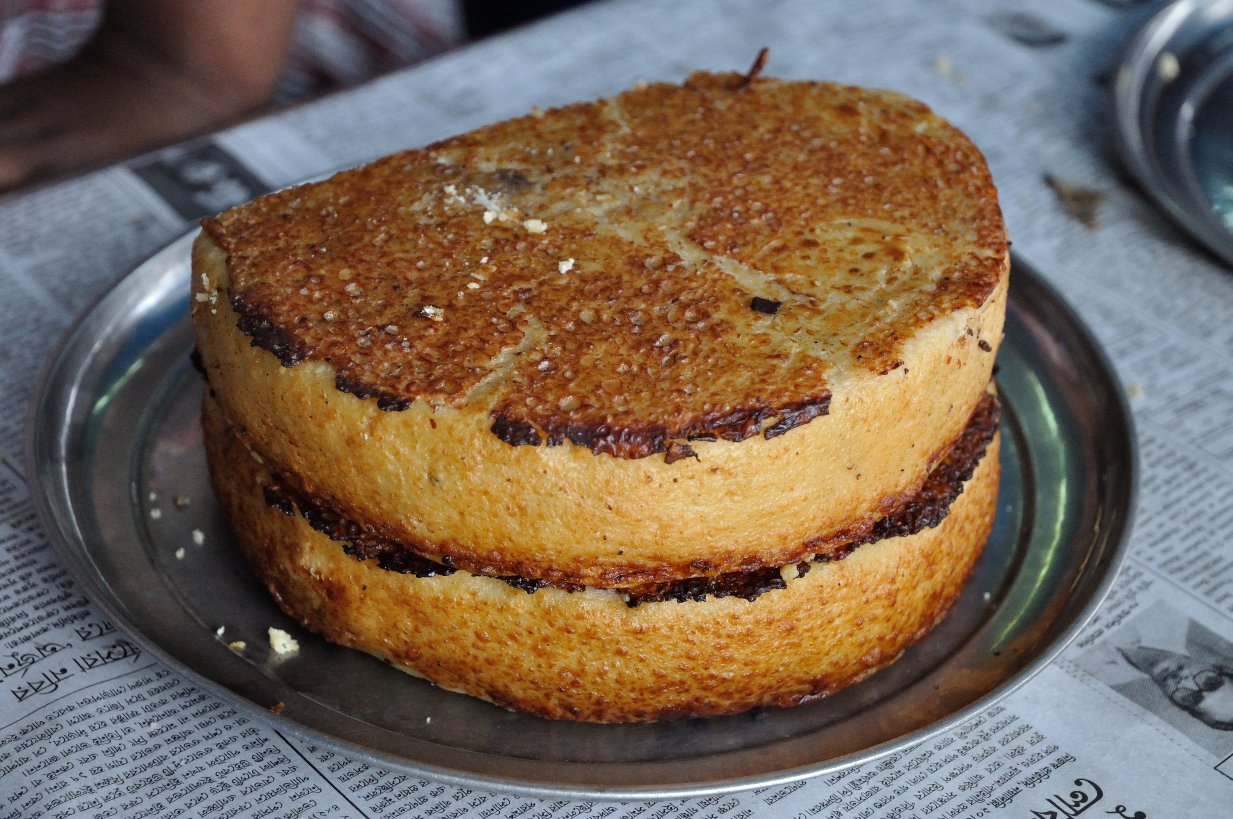 Photographed in West Bengal, India.